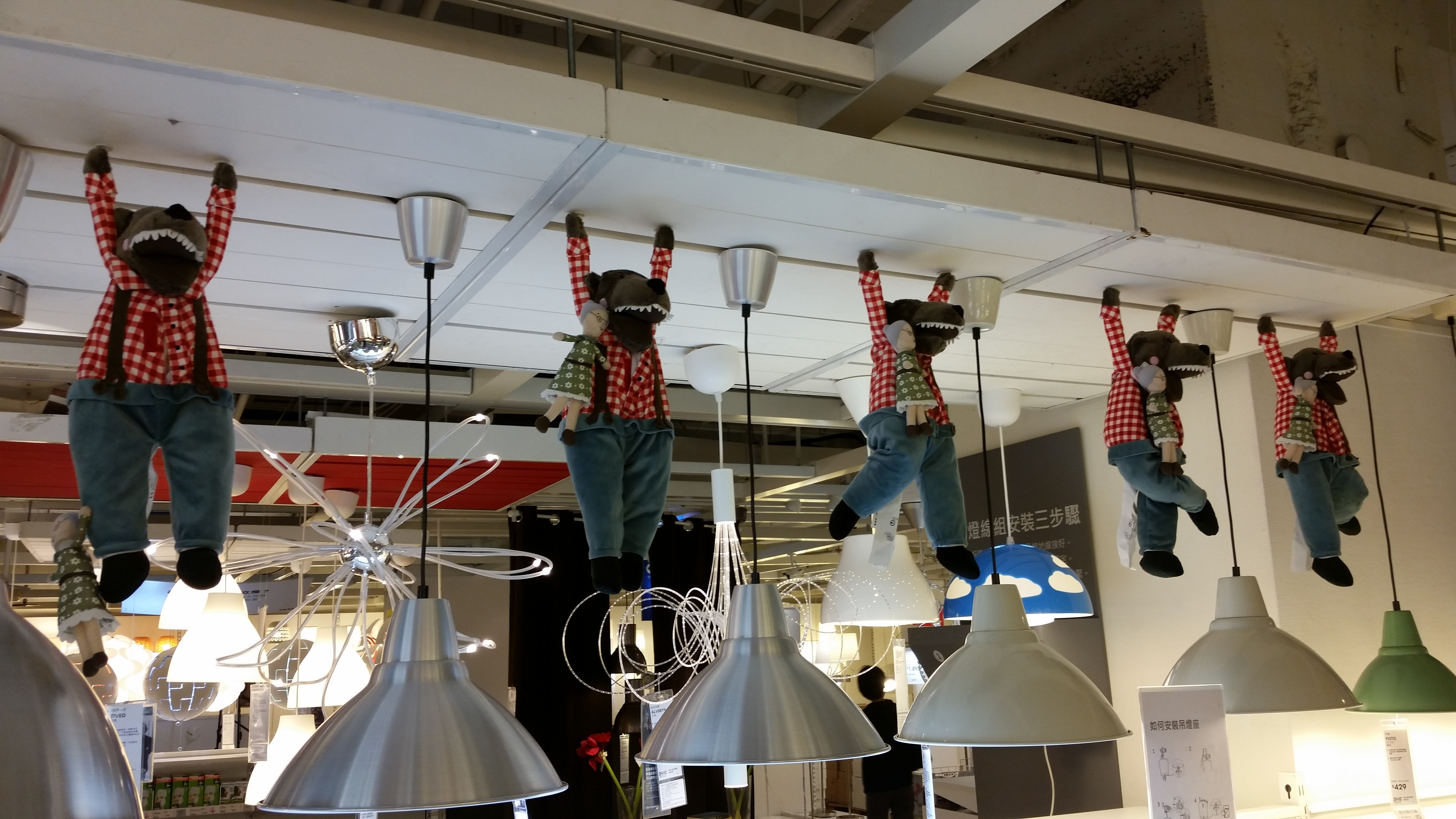 Five Lufsig dolls inside an IKEA store at Dunhua North Road in Taipei, Taiwan.